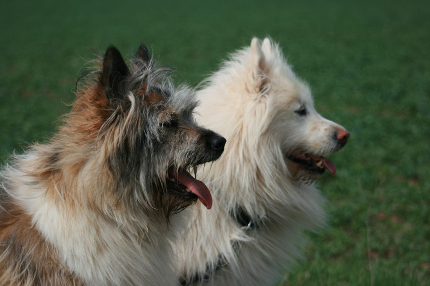 Elo female wirehaired tri-color and Elo male moderate wirehaired cream-color